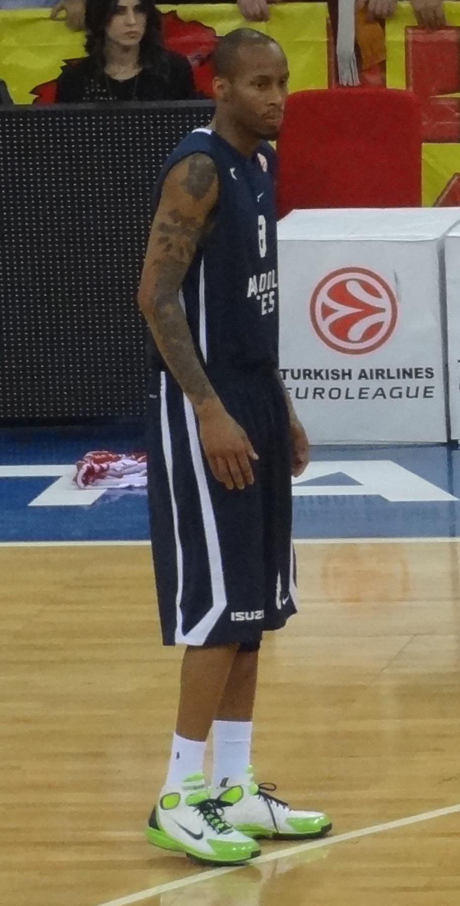 Kince playing against GS